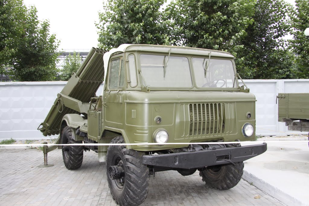 Verkhnyaya Pyshma Tank Museum 2011